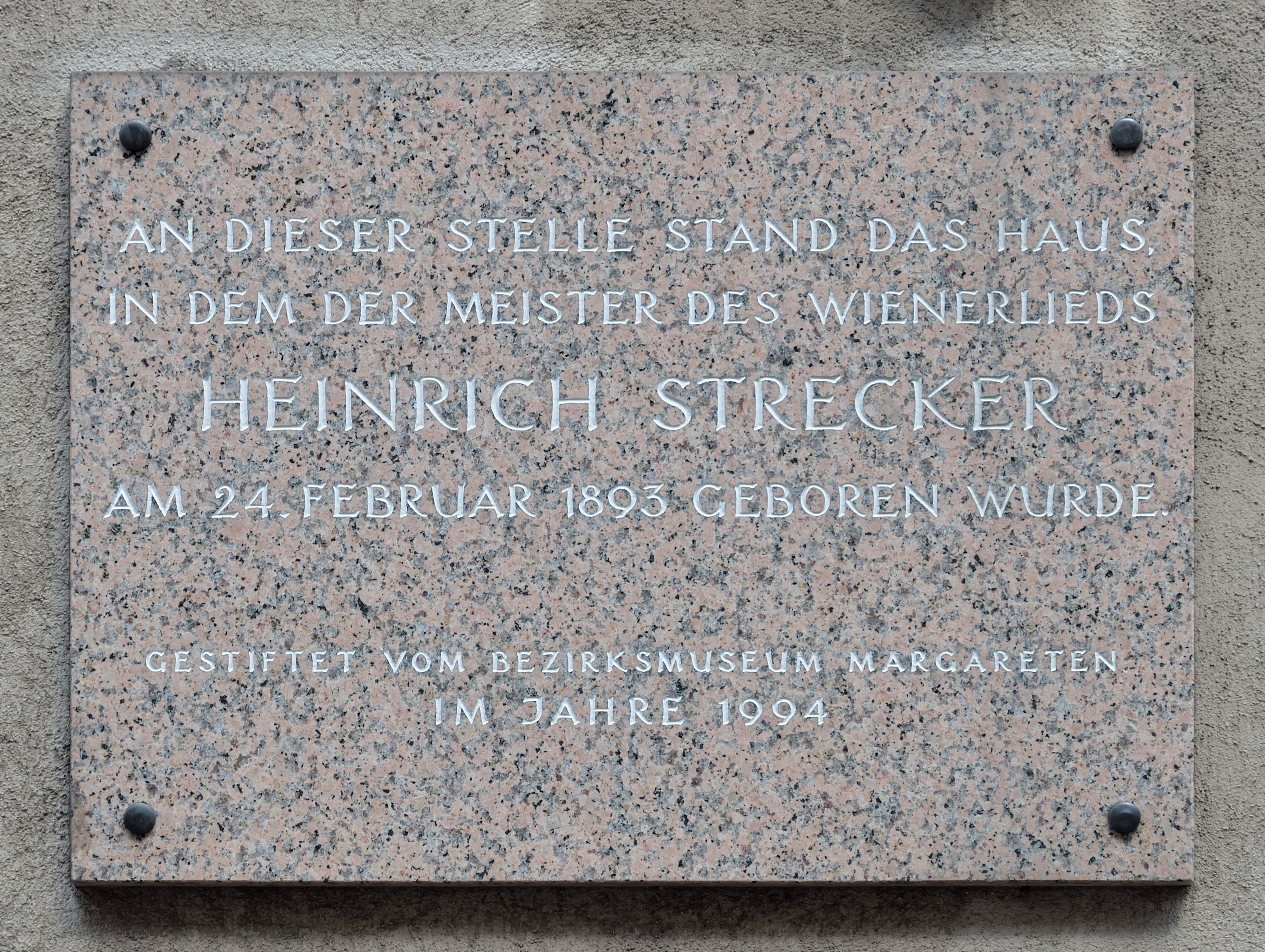 Plaque for the composer Heinrich Strecker at the place where the house he was born in stood. This is Anzengrubergasse 10, Margareten, Vienna.